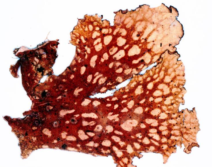 Lobaria linita (Ach.) Rabenh., 1845 (photograph of the lower surface of herbarium specimen) Growing in a moist coniferous forest near Ipsut Creek Ranger District, Mount Rainier National Park, Ashford, Washington, USA; collected by Camile Wooden, identified by B. Norden and A. Norden (No. 348, 3 May 1973); specimen is now in the Lichen Herbarium of the New York Botanical Garden.